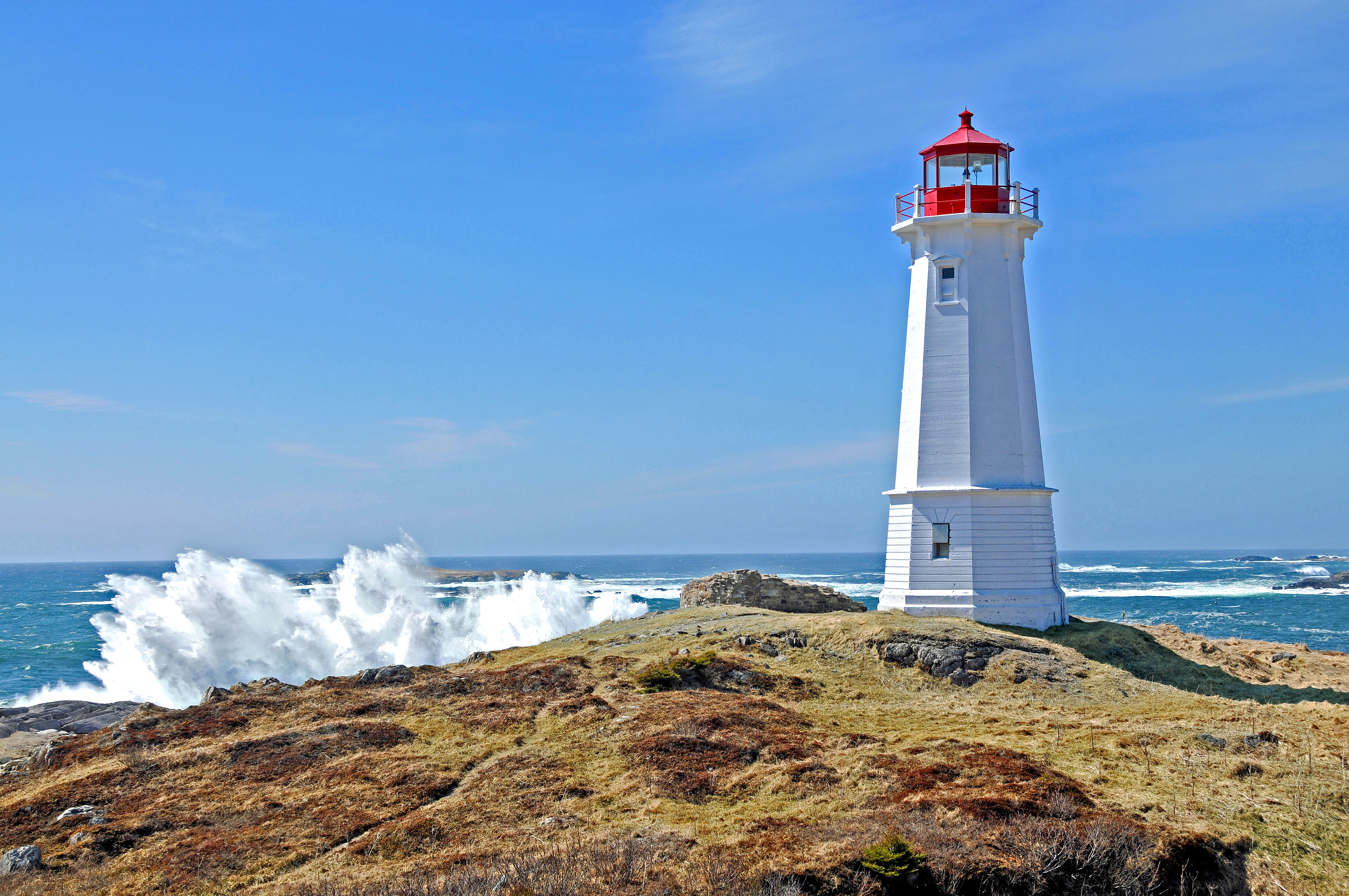 Louisbourg Lighthouse, 2008. This is the third light and was completed in 1923, a year after the second light burned. It is a white concrete octagonal tower, 55 feet high. Several modifications have been made to the characteristic of the light over time. Louisbourg, Nova Scotia, Canada The lighthouse constructed by the French at Louisbourg was the first established in Canada, and the second on the North American continent. (The first North American light was lit on September 14, 1716 on Little Brewster Island in Boston Harbour.) Louisbourg, built near the northeast corner of Cape Breton Island, was the base from which the French planned to hold New France against the English. The Fortress was dependant upon ships from France to supply most of its needs. Safe entrance to the harbour at the end of the long voyage became a concern. The initial plan to build a tower and light was made in late 1727, though the formal decision to build was not made until spring of 1729, after one of the King's ships, Le Profond nearly met its end in the harbour which was marked only by a navigational cross, and periodically by a bonfire.